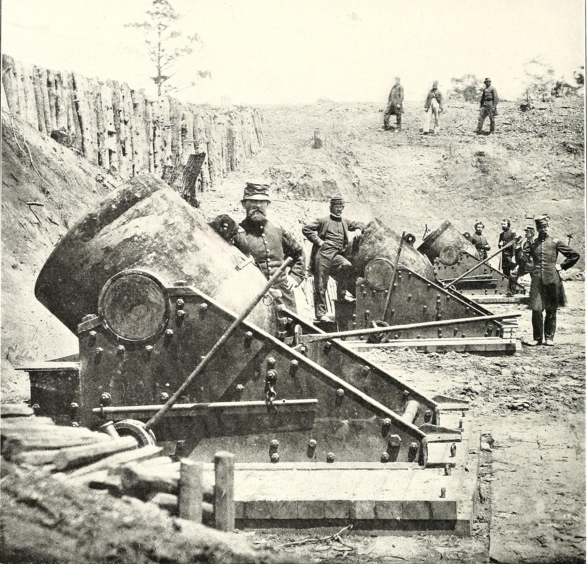 Title: The photographic history of the Civil War : in ten volumes Year: 1911 (1910s) Authors: Miller, Francis Trevelyan, 1877-1959 Lanier, Robert S. (Robert Sampson), 1880- Subjects: War photography Publisher: New York : Review of Reviews Co. Text Appearing Before Image: ' Text Appearing After Image: Ctpijn.jhthu Fair,,.I Fuh. Cn rilE SUPERFLUOUS SIEGE The Mortar Battery that Never Fired a Shot. By liis inueh heralded Peninsida Campaign, McCleUan had))haniied to end the war in a few days. He hmded with his Army of the Potomac at Fortress Monroe, inApril, lS(i2, intending to sweep up the peninsida between the York and James rivers, seize Richmond atone stroke, and scatter the routed Confederate army into the Southwest. At Yorktown, he was opposedby a Hue of fortifications that sheltered a force nuieh inferior in strength to his own. For a whok^ monthMcClellan devoted all the energies of his entire army to a systematic siege. Its useless elaboration is wellillustrated bj Battery No. 4, one of fifteen batteries planted to the south and southeast of Yorktown. Theten mon.ster 13-inch siege mortars, the complement of No. 4, had just lieen placed in position and were almostready for action. It was pkmned to ha\^e them drop shells on the Confederate works, a mile and a halfdistant. Just a